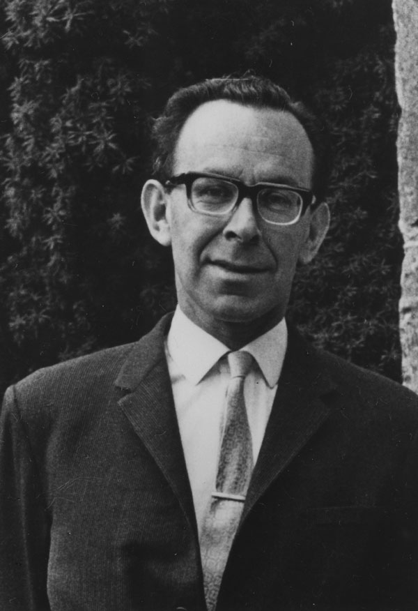 A photographic portrait of Stanley Alexander de Smith (27 March 1922 – 12 February 1974), an English academic lawyer and author, at the London School of Economics ("LSE"). De Smith was an assistant lecturer, lecturer, reader, and eventually Professor of Public Law (1959–1970) at the LSE.